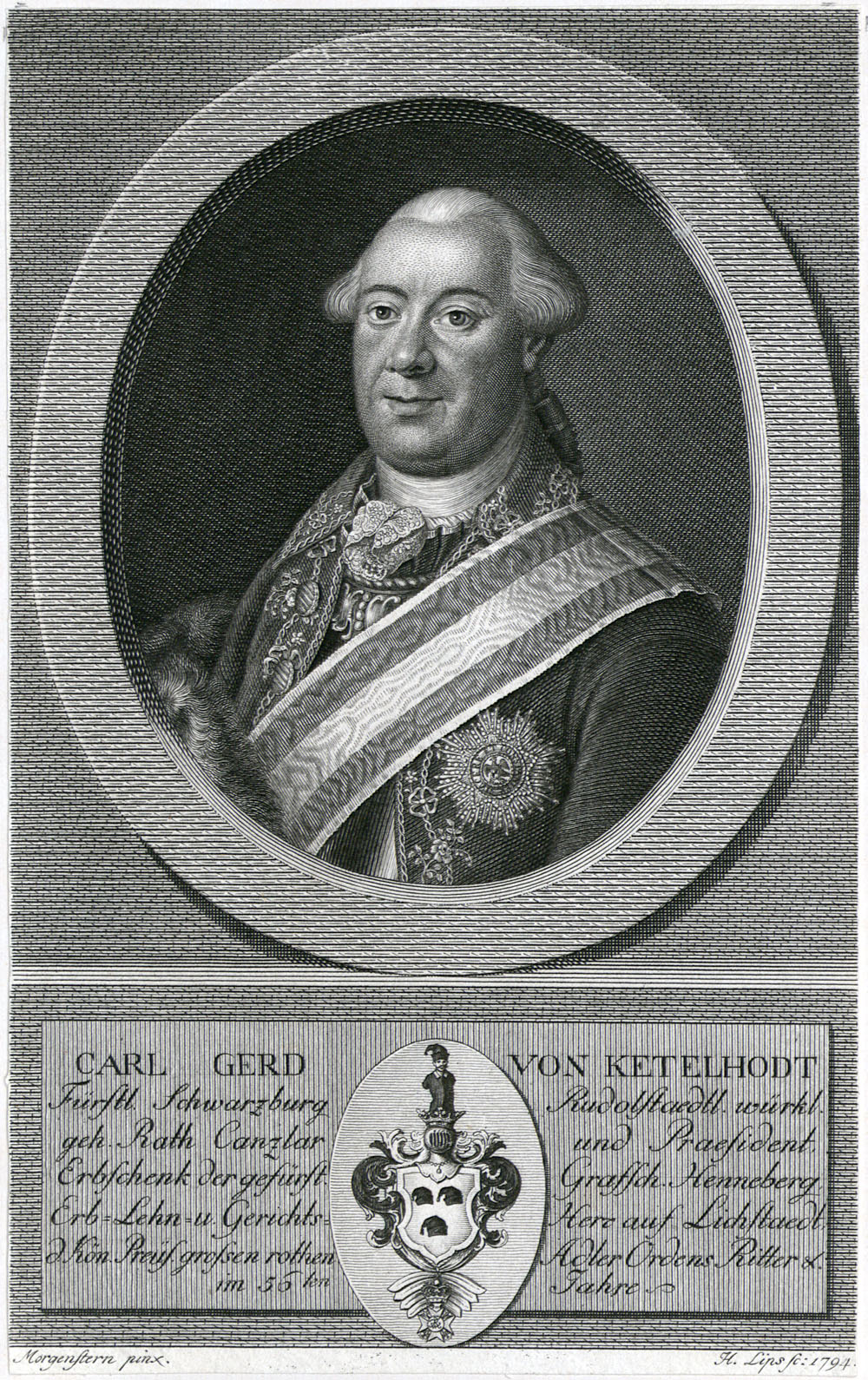 Portrait of Car Gerd von Ketelhodt (1738-1814), Kanzler in Rudolstadt